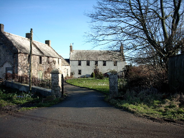 Birkenbog,near Cullen. Birkenbog House and derelict steading,near Cullen